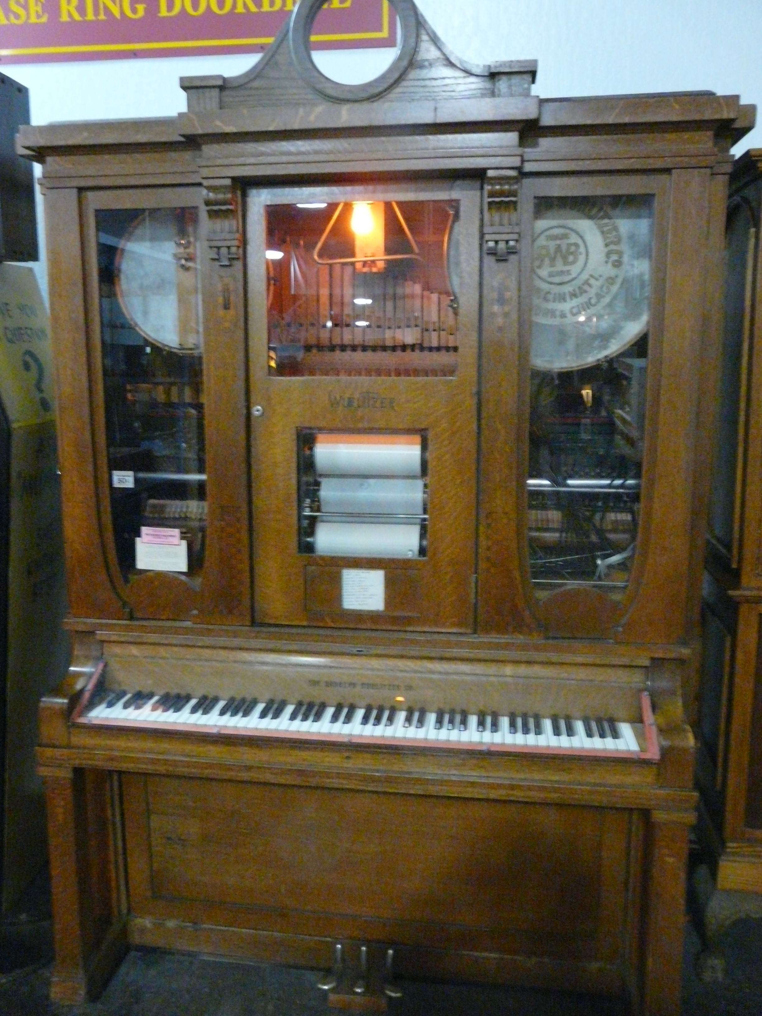 Wurlitzer Style B Orchestrion (c.1912) Note: stained glasses were replaced with clear glasses [1]